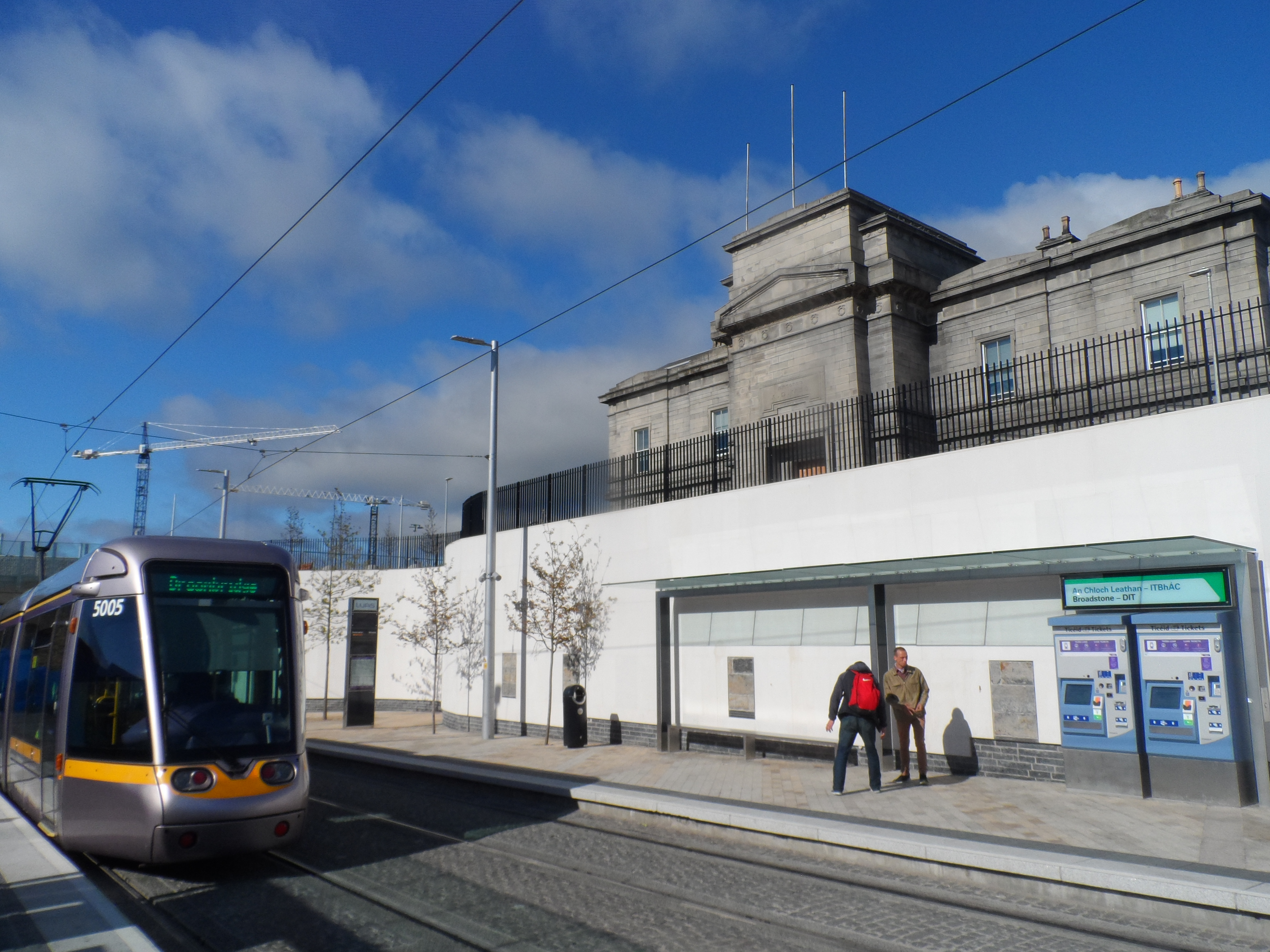 Broadstone DIT Luas Stop (Dublin)